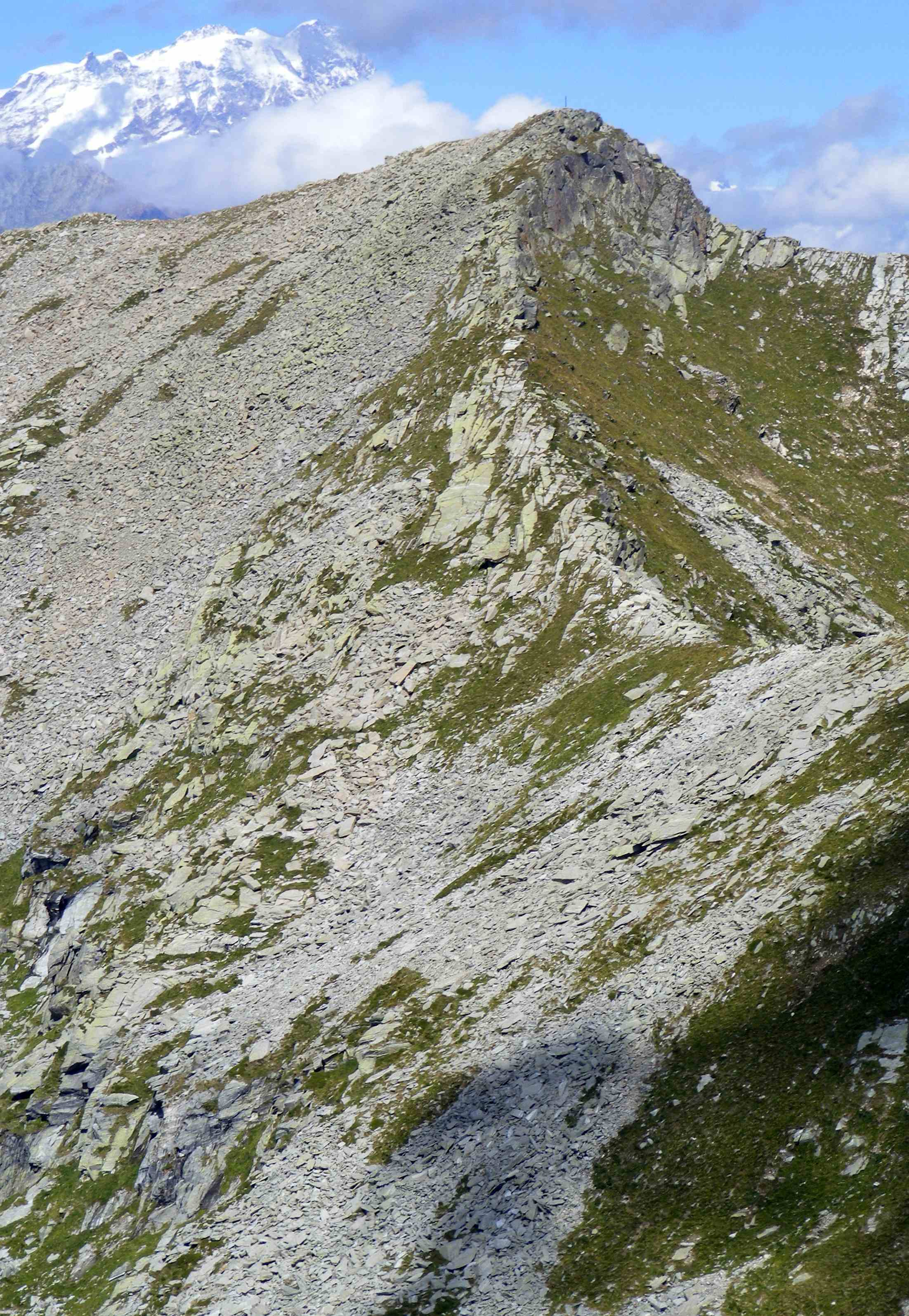 Monte Cresto (Alpi Biellesi, Italy) from monte Pietra Bianca; Monte Rosa in the background